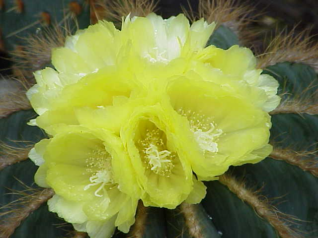 Species: Parodia magnifica Family: Cactaceae Image No. 1